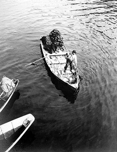 From John Cobb field notebook: Boats containing bait herring, Tees Harbor, Alaska. June 25, 1907 Subjects (LCTGM): Fishing boats--Alaska--Tee Harbor Subjects (LCSH): Gillnetting--Alaska--Tee Harbor